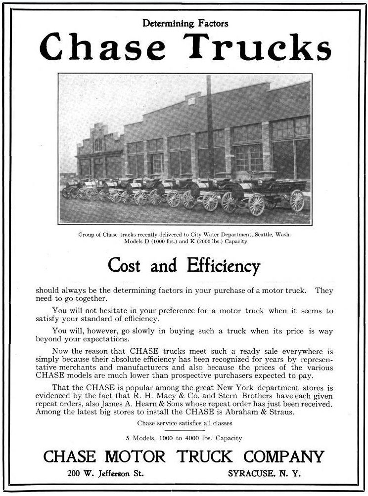 Chase Motor Truck Company - Advertisement - City Water Department in Seattle